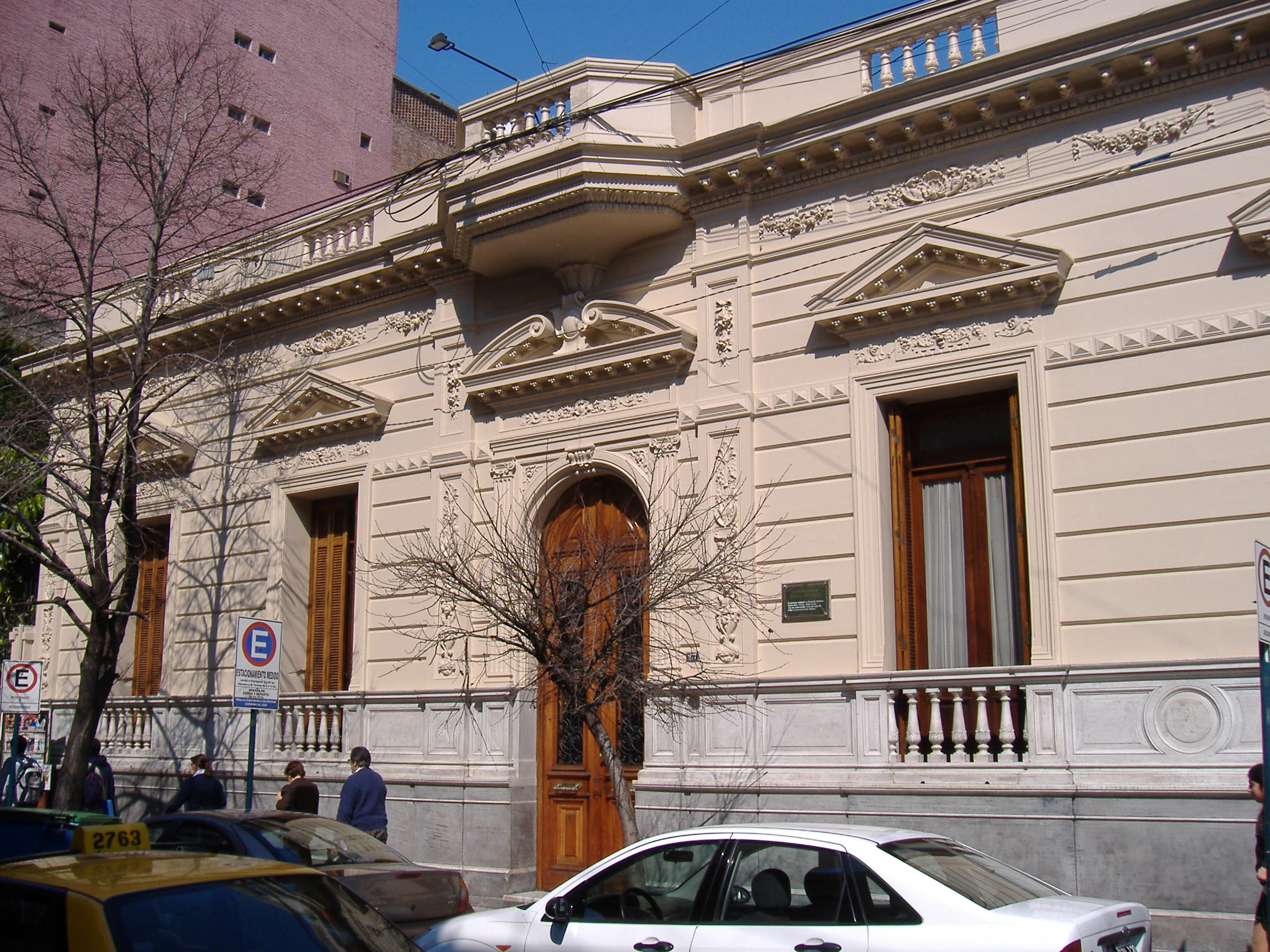 Seat of the Archbishopric of Rosario, Argentina, in Paseo del Siglo downtown historic district.